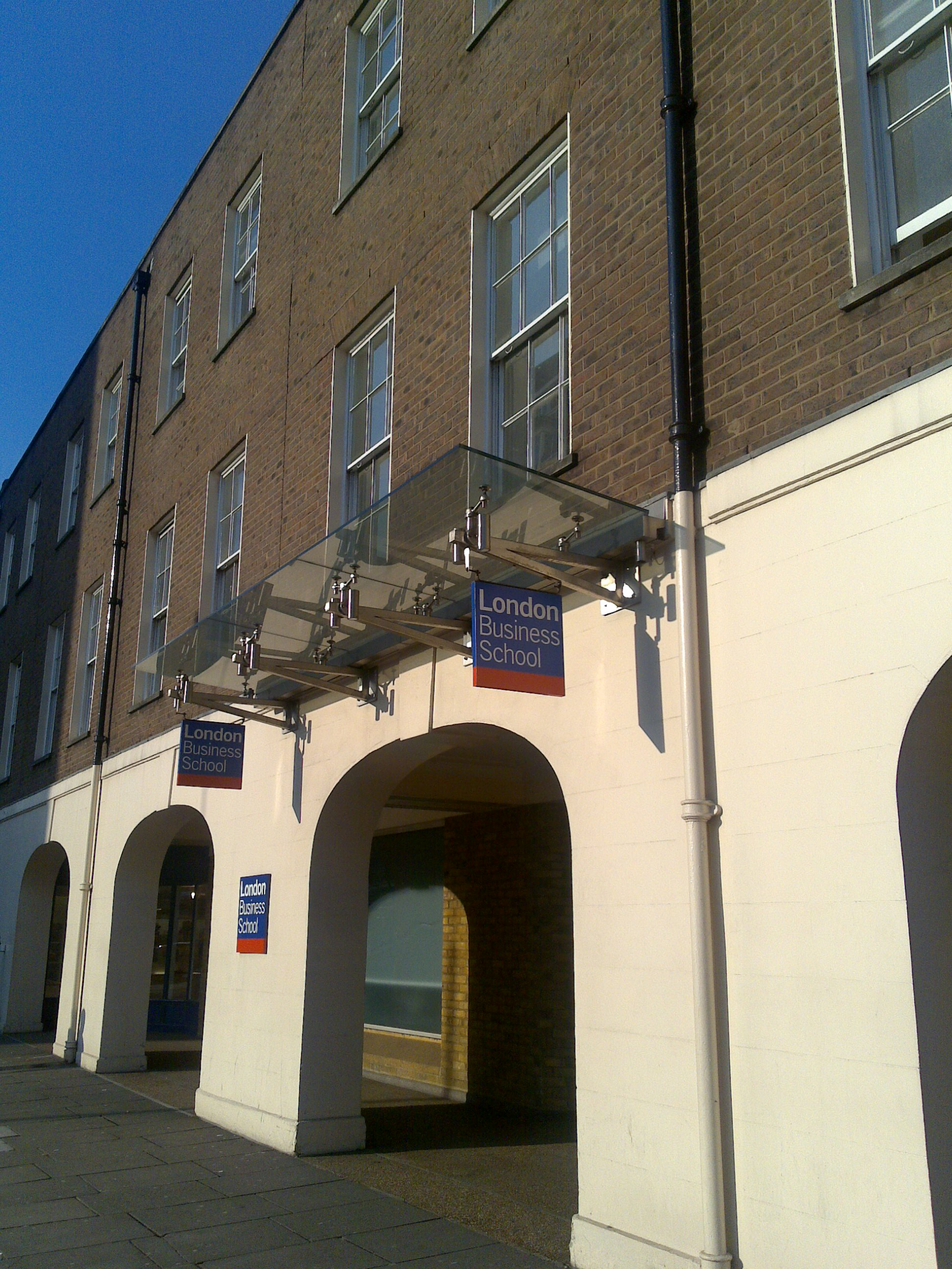 London Business School, UK